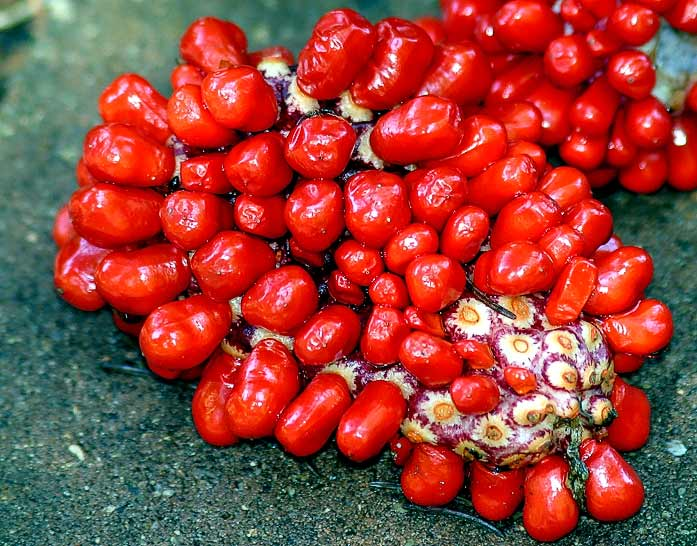 Berries of Jack-in-the pulpet